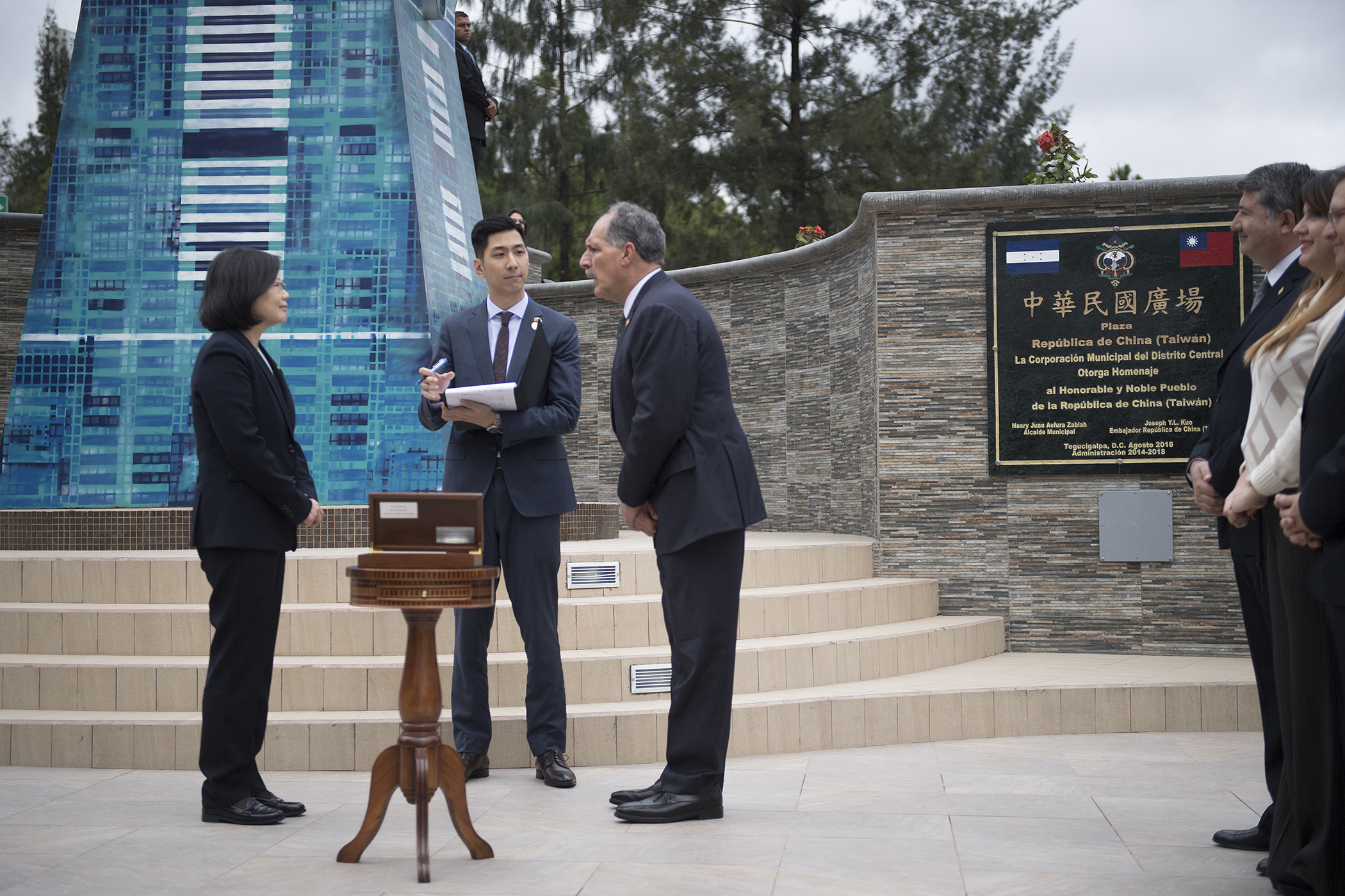 授權方式及範圍：中華民國總統府│政府網站資料開放宣告 Authorization Method & Scope: Office of the President, Republic of China (Taiwan) | Government Website Open Information Announcement